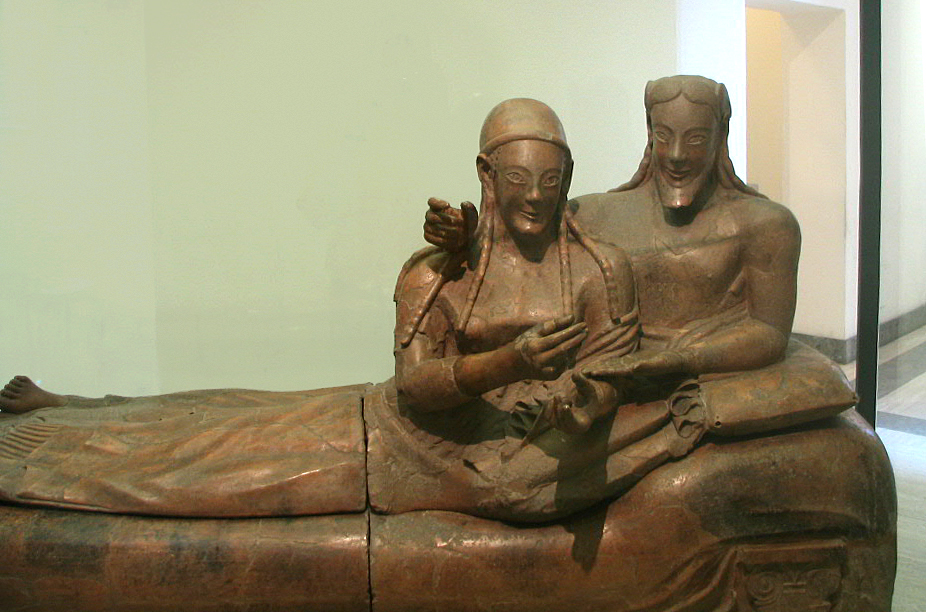 Sarcophagus of the Spouses.